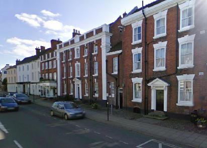 Adams' Grammar School Senior Boarding